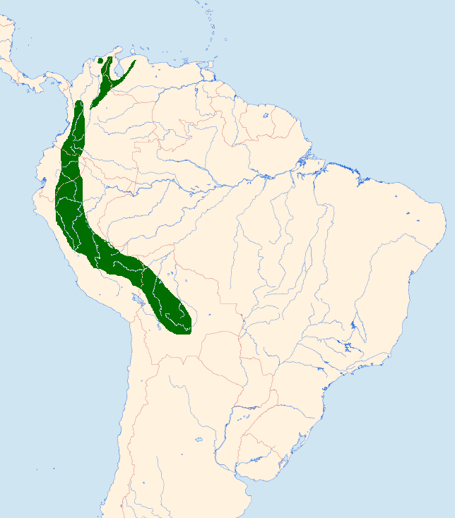 Range Map of White-Capped Dipper